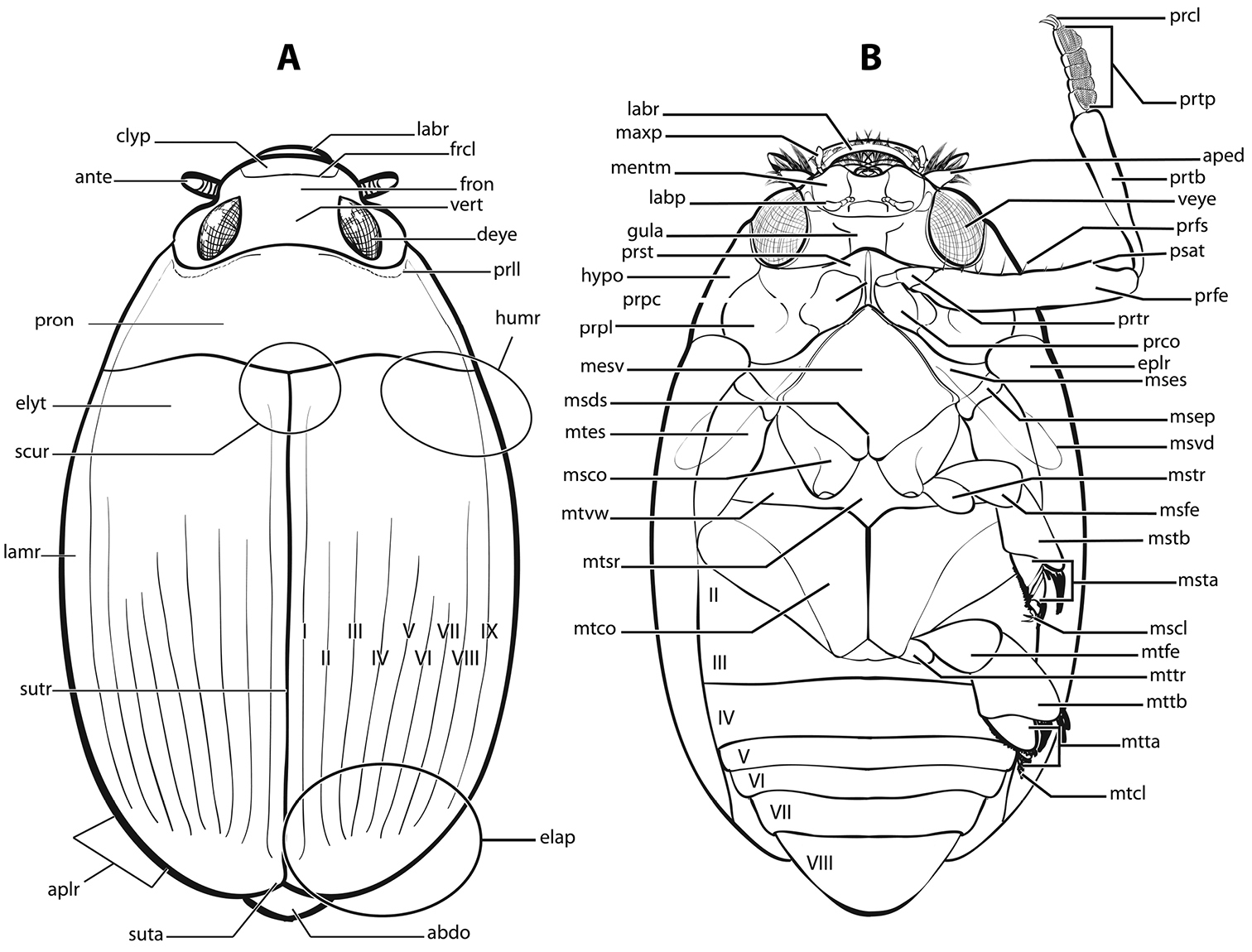 Generalized anatomy of Dineutus adult ♂ A dorsal. clyp: clypeus, ante: antenna, pron: pronotum, elyt: elytron, scur: scutellar region, lamr: lateral marginal depression of elytron, sutr: elytral suture, aplr: apicolateral angle of elytral apex, suta: sutural angle of elytral apex, abdo: abdomen, elap: elytral apex, I–IX: elytral striae, humr: humeral region of elytron, prll: pronotal transverse impressed line, deye: dorsal eye, vert: vertex, fron: frons, frcl: frontoclypeal suture, labr: labrum B ventral. labr: labrum, maxp: maxillary palp, mentm: mentum, labp: labial palp, gula: gula, prst: prosternum, hypo: hypomeron, prpc: prosternal process, prpl: propleuron, mesv: mesoventrite, msds: mesothoracic discrimen, metes: metanepisternum, msco: mesocoxa, mtvw: metaventral wing, mtsr: metaventrite, mtco: metacoxa, II–VIII: abdominal sternites, metcl: metatarsal claw, mtta: metatarsus, mttb: metatibia, mttr: metatrochanter, mtfe: metafemur, mscl: mesotarsal claw, msta: mesotarsus, mstb: mesotibia, msfe: mesofemur, mstr: mesotrochanter, msvd: mesoventrite depression for receiving prothoracic leg, msep: mesepimeron, mses: mesanepisternum, eplr: elytral epipleuron, prco: procoxa, prtr: protrochanter, prfe: profemur, psat: profemoral sub-apicoventral tooth, prfs: ventral profemoral setae, veye: ventral eye, prtb: protibia, aped: antennal pedicel, prtp: setose pad of protarsus, prcl: protarsal claw.